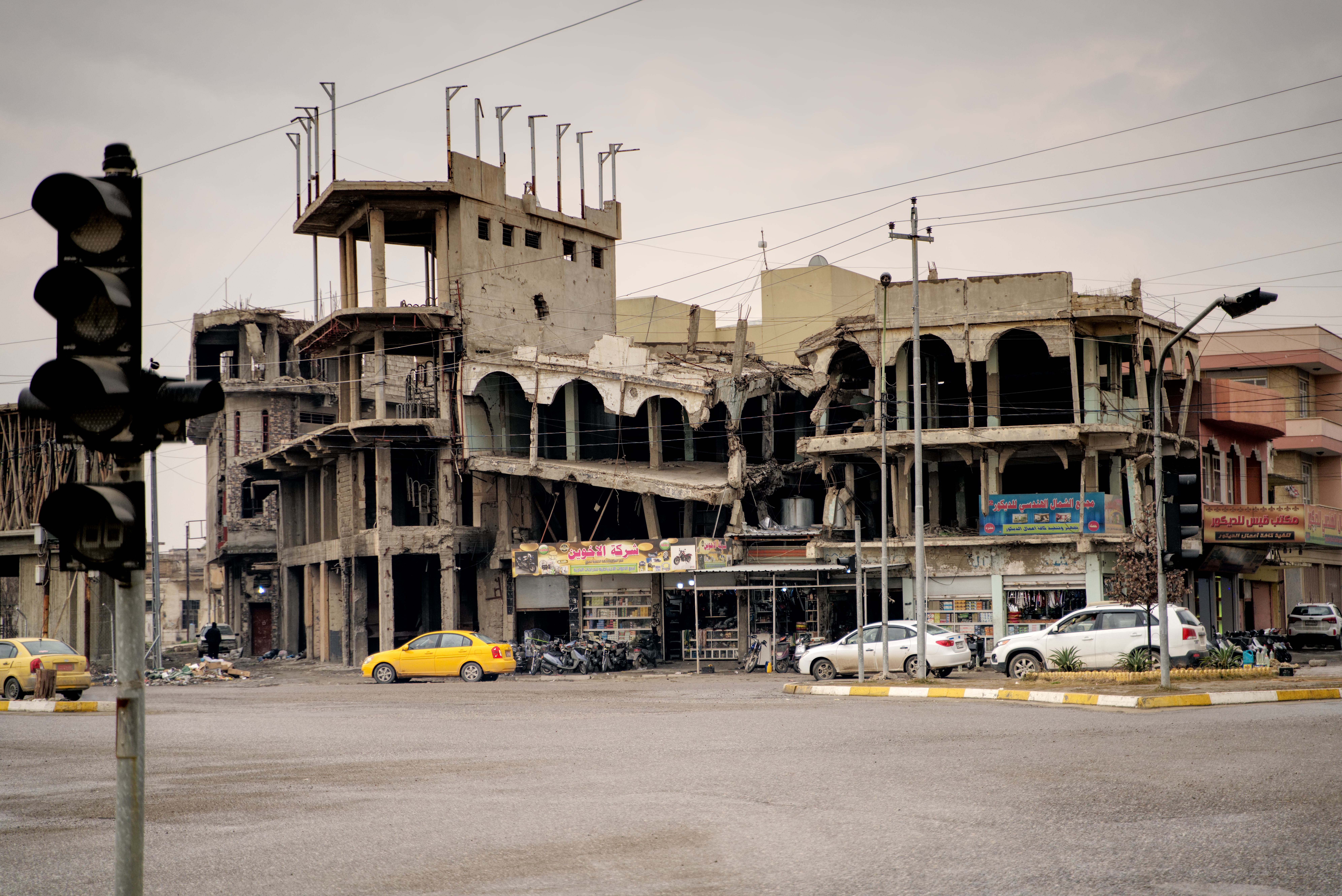 Destroyed house in Mosul in January 2020. People are very slowly returning, few shops are opening up.